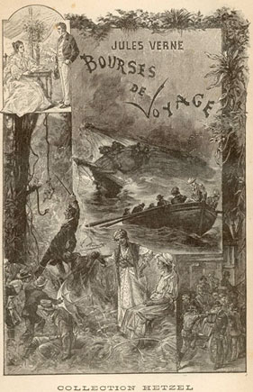 Ilustration from Léon Benett from book of J. Verne "Traveling Scholarships ".